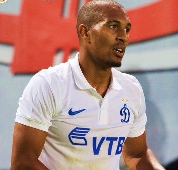 William Vainqueur